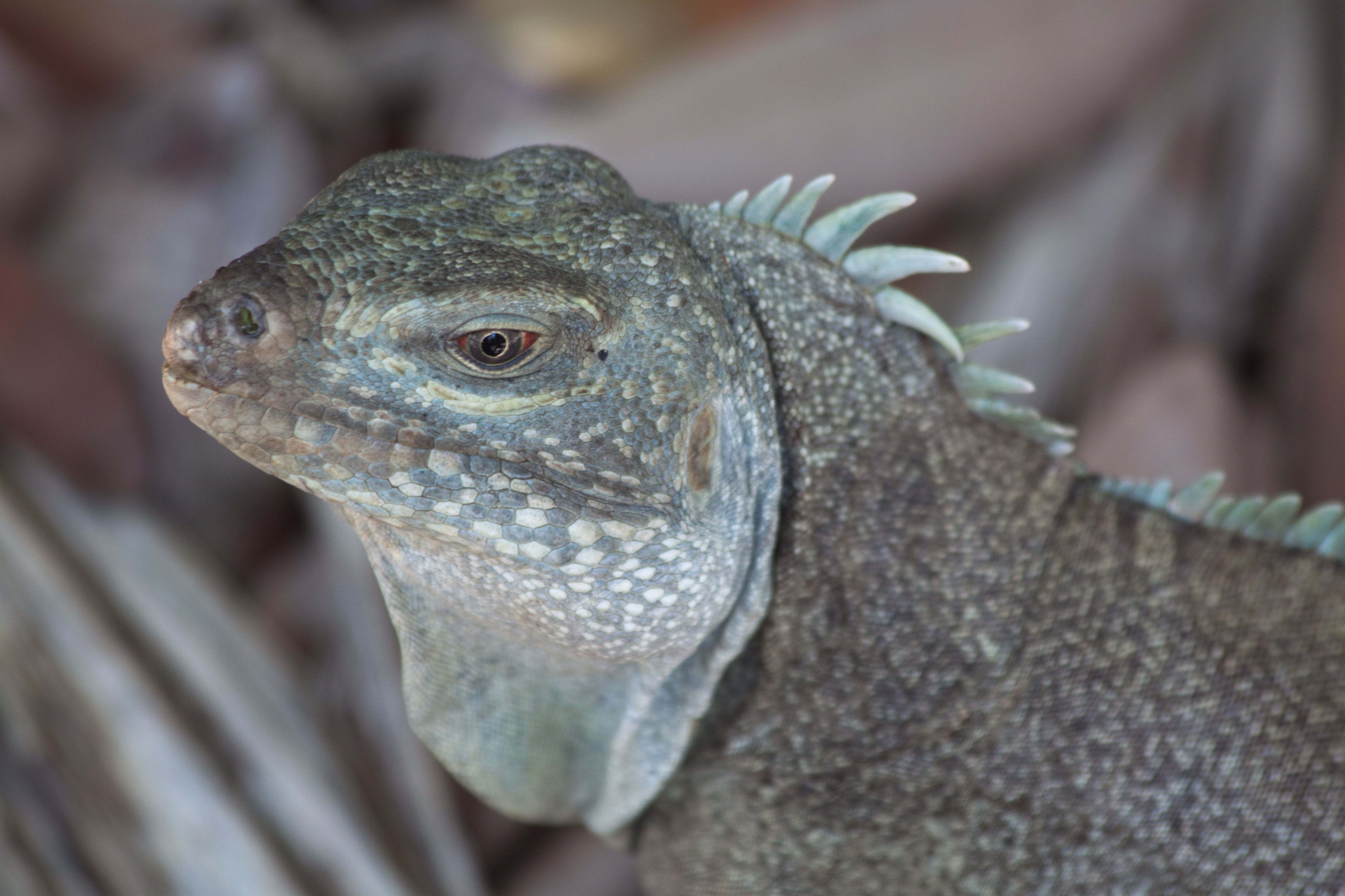 Turks and caicos iguana